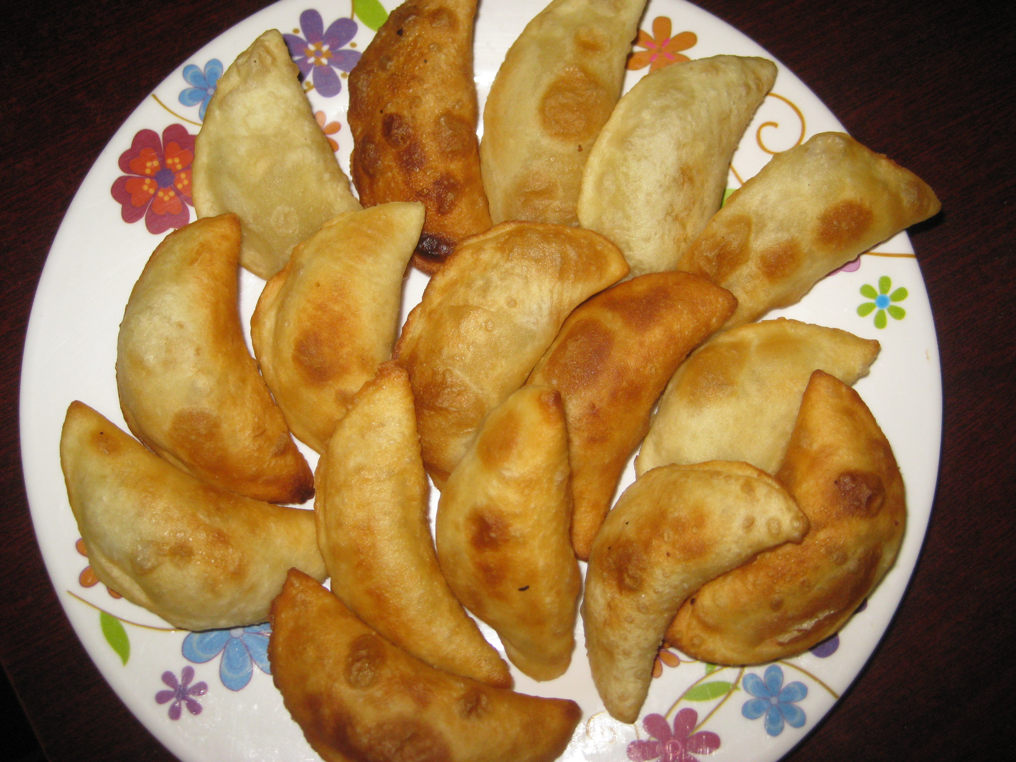 Home-made Puli piṭha; popular in winter in Bangladesh